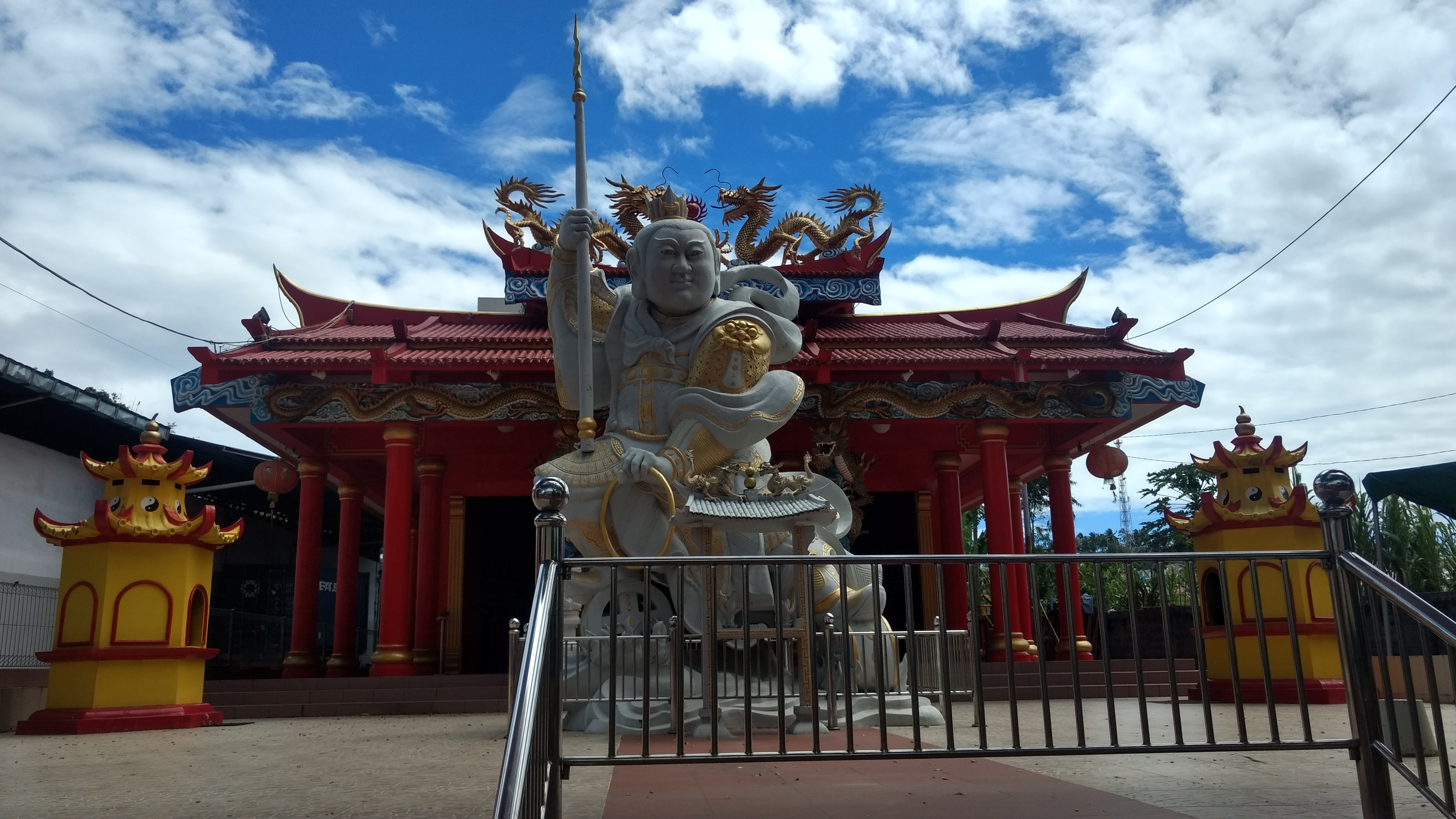 Chinese Temple